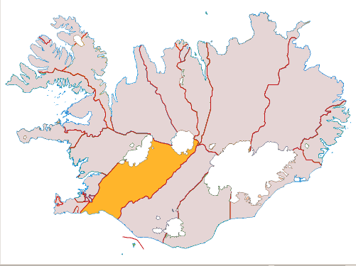 A map of the county Árnessýsla in Iceland. Based on a map from the National Land Survey of Iceland. No copyright protedtion on the original map.